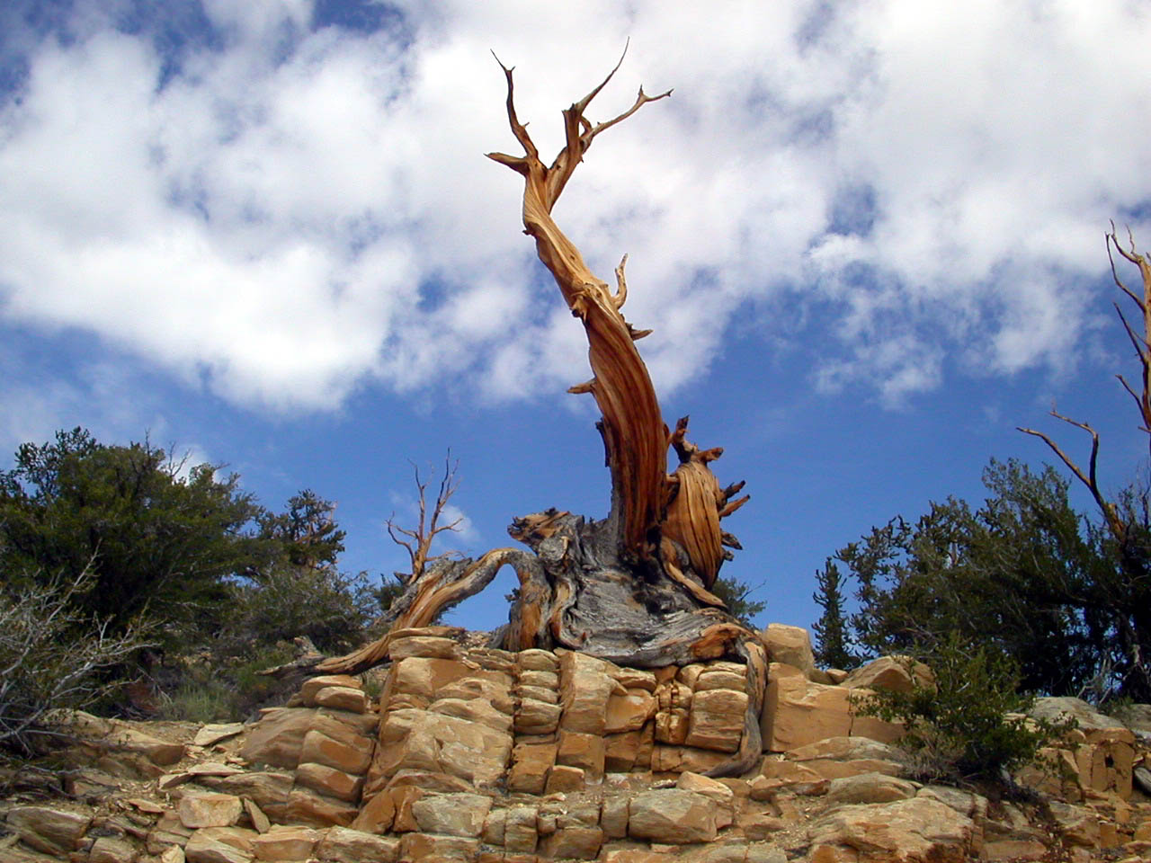 Bristlecone Pine — Great Basin Bristlecone Pine—Pinus longaeva — on dolomite. In the Ancient Bristlecone Pine Forest of the Inyo National Forest, in the White Mountains, Inyo County, eastern California.